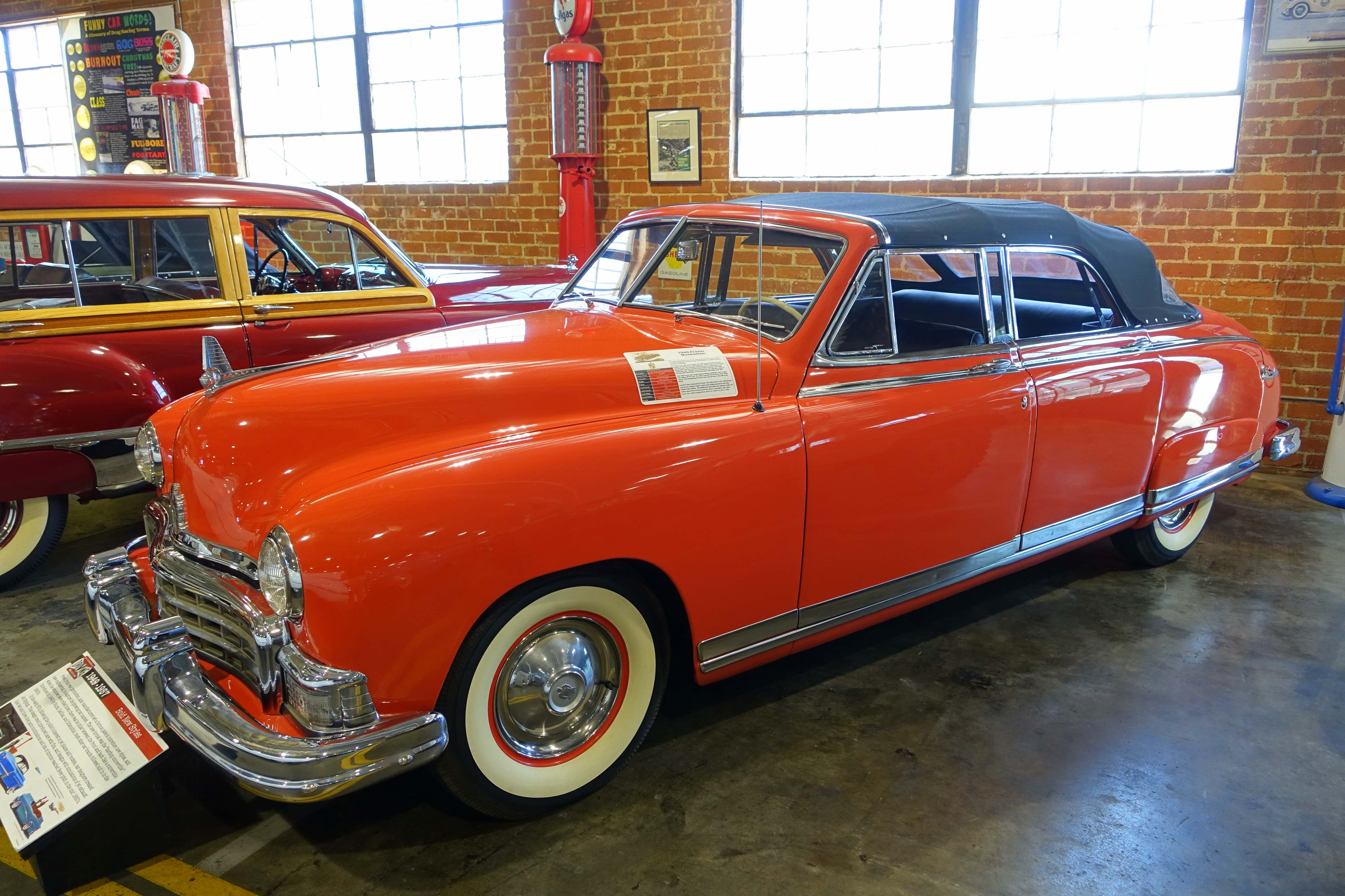 Exhibit in the Automobile Driving Museum - El Segundo, California, USA.